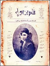 Nezihe Muhiddin: "Feministiz biz!" Ottoman Turkish woman rights defender Nezihe Muhiddin on the cover page of an Ottoman era magazine, saying "We are feminists". Judging by the picture, in her early 20s (1910s).